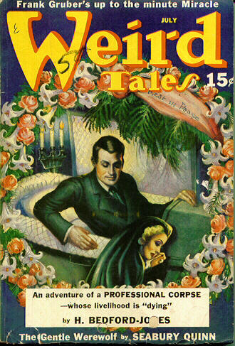 Cover of the pulp magazine Weird Tales (July 1940, vol. 35, no. 4) featuring An Adventure of a Professional Corpse by H. Bedford-Jones. Cover art by Margaret Brundage.